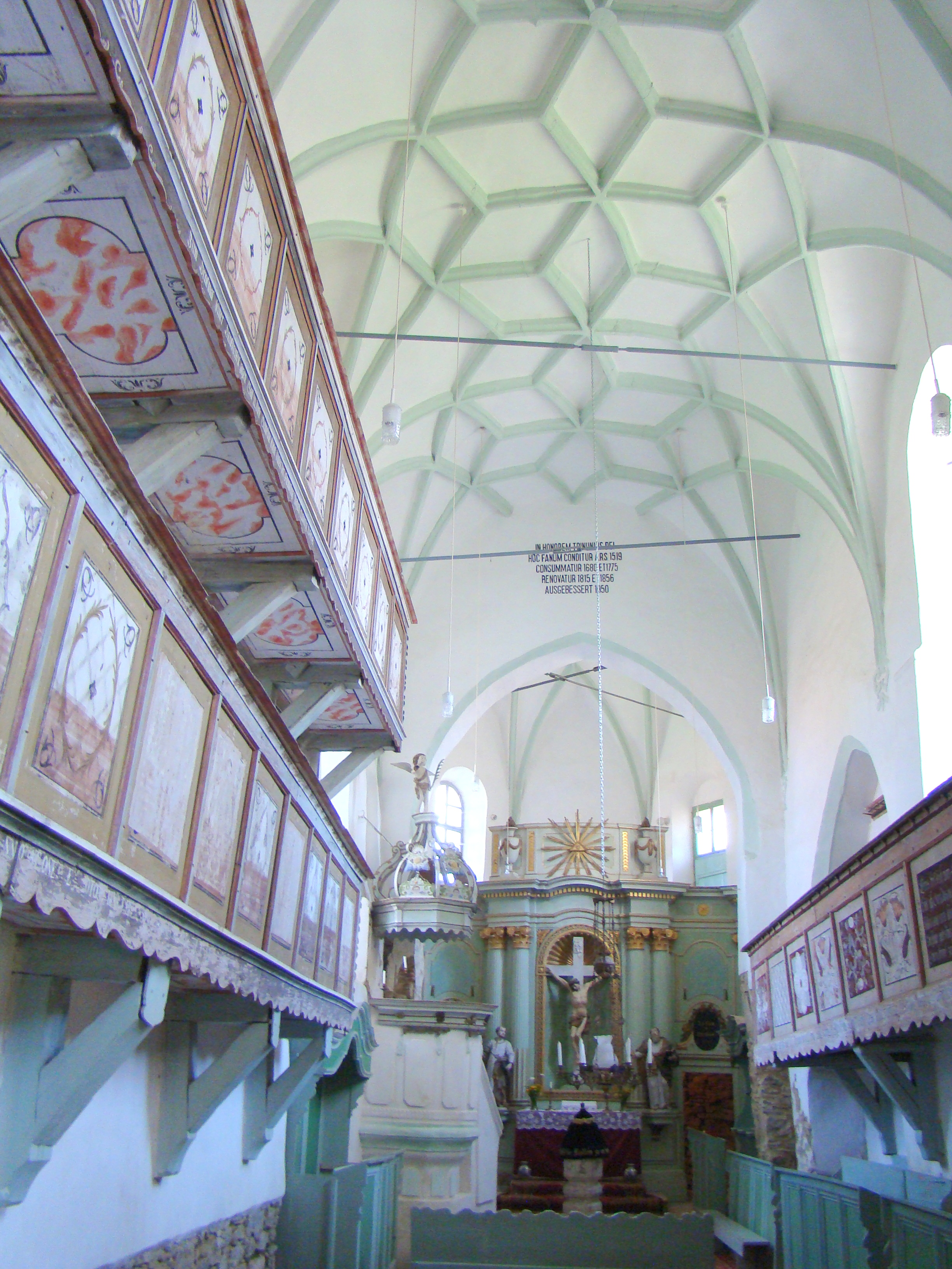 Fortified church in Bunești, Brașov County, Romania